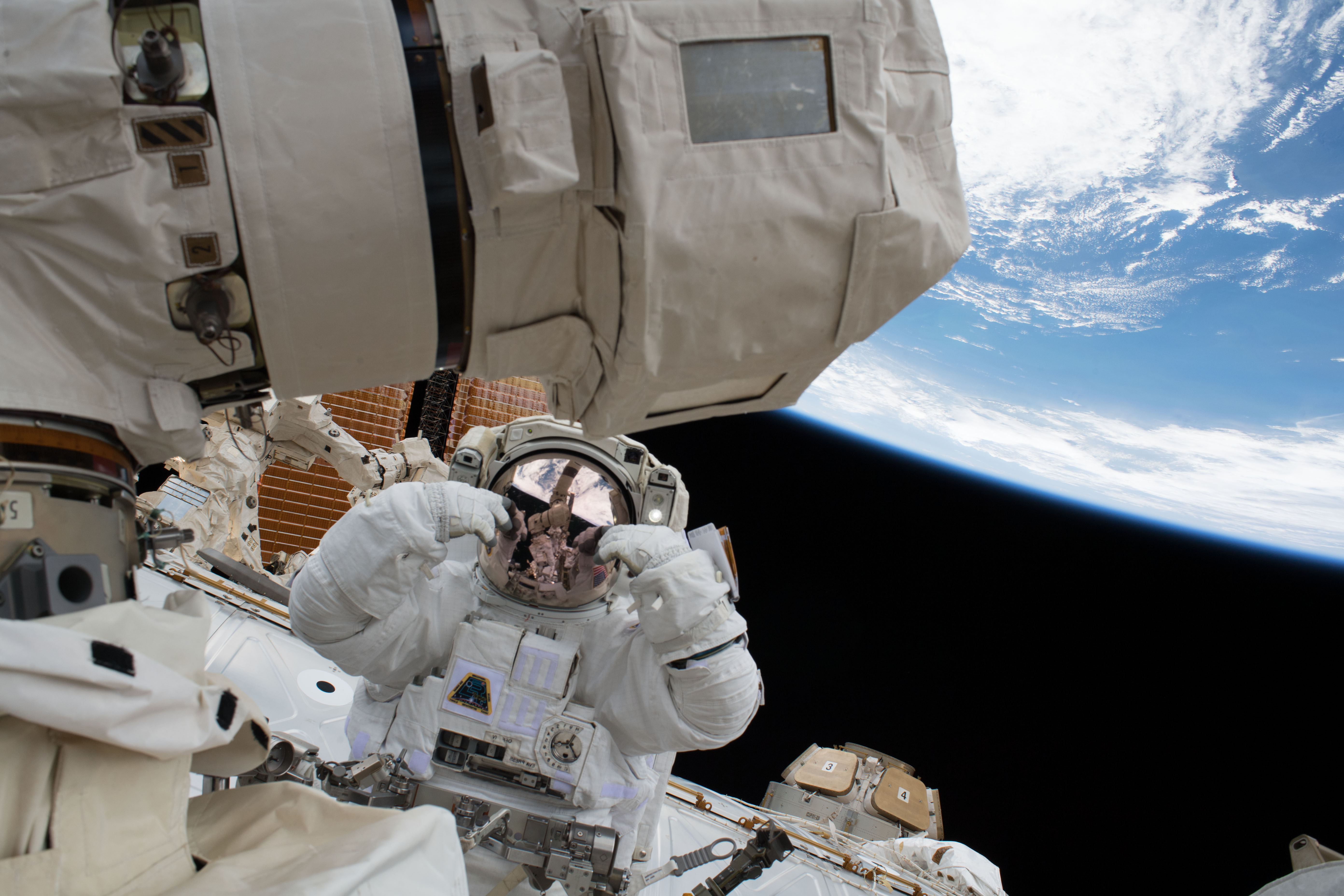 NASA astronaut Scott Tingle is pictured during a spacewalk to swap out a degraded robotic hand, or Latching End Effector, on the Canadarm2. NASA astronaut Mark Vande Hei also participated in the robotics maintenance spacewalk.